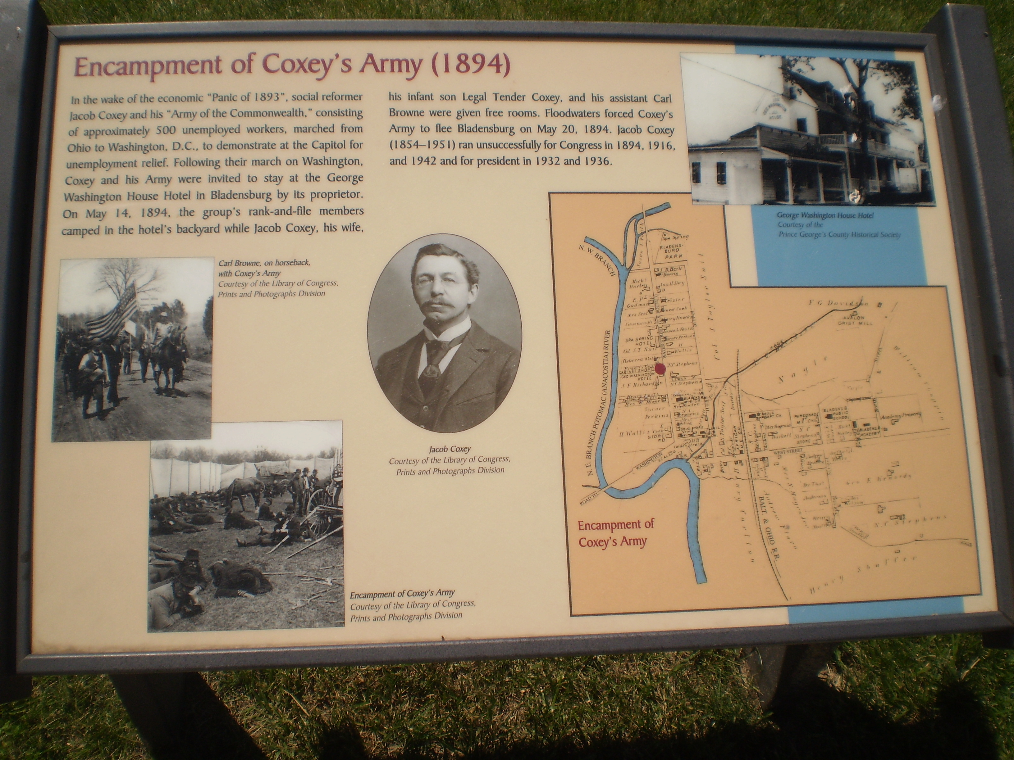 Sign for the Coxey's Army at the Bladensburg Waterfront Park in Bladensburg, Maryland.